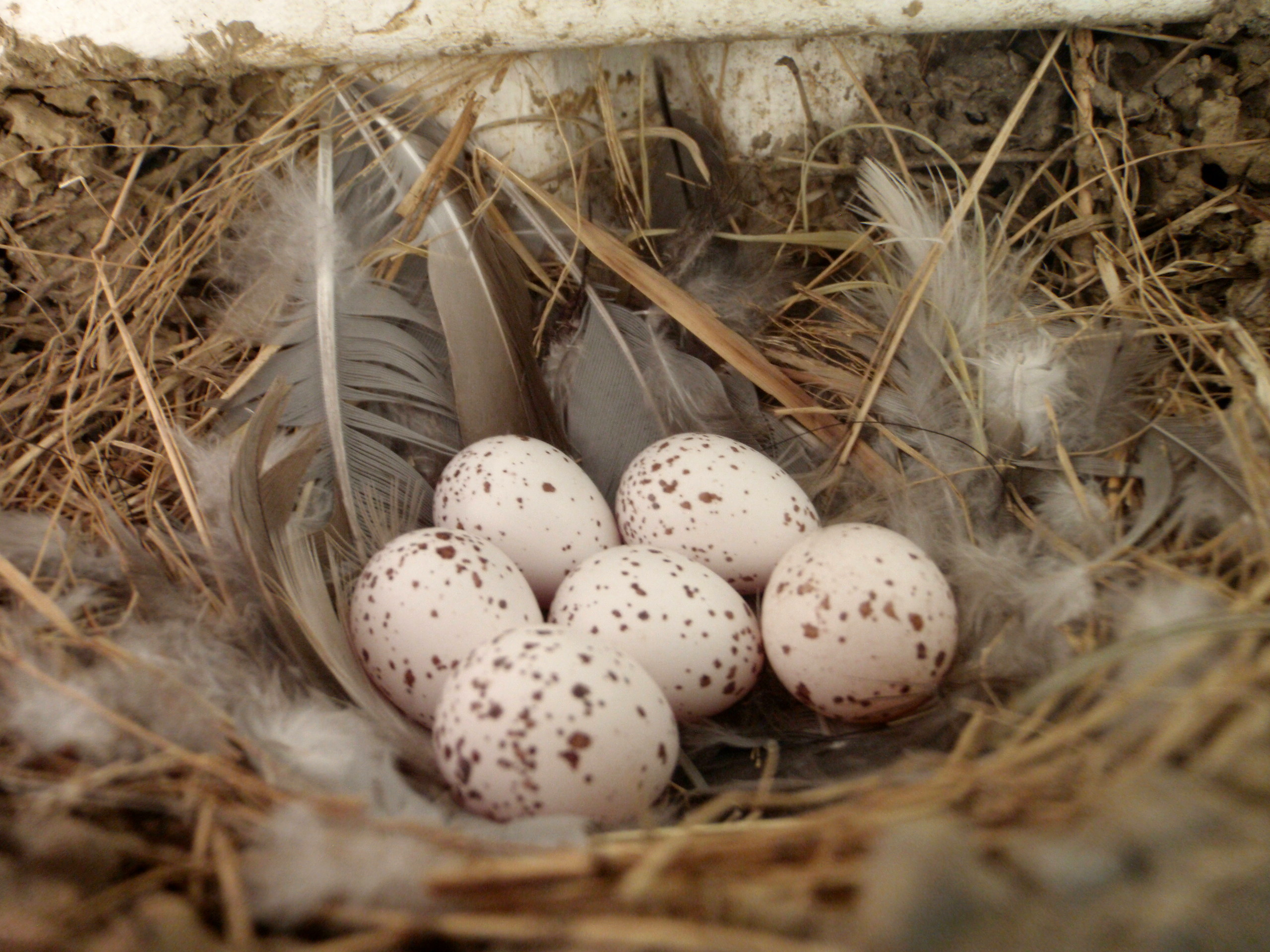 Barn swallow (Hirundo rustica) nest eggs, complete clutch